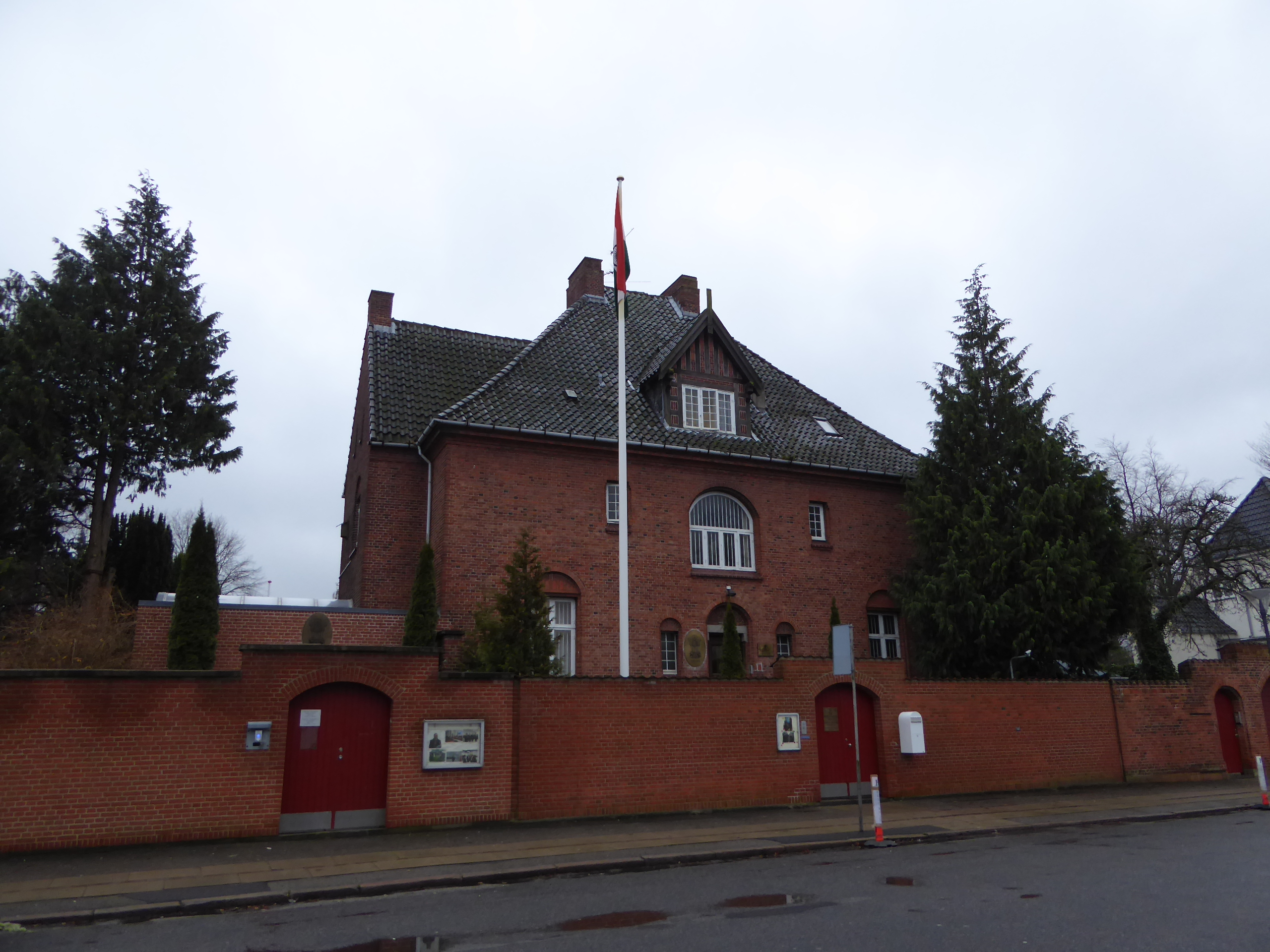 The embassy of India at Vangehusvej in Østerbro in Copenhagen.